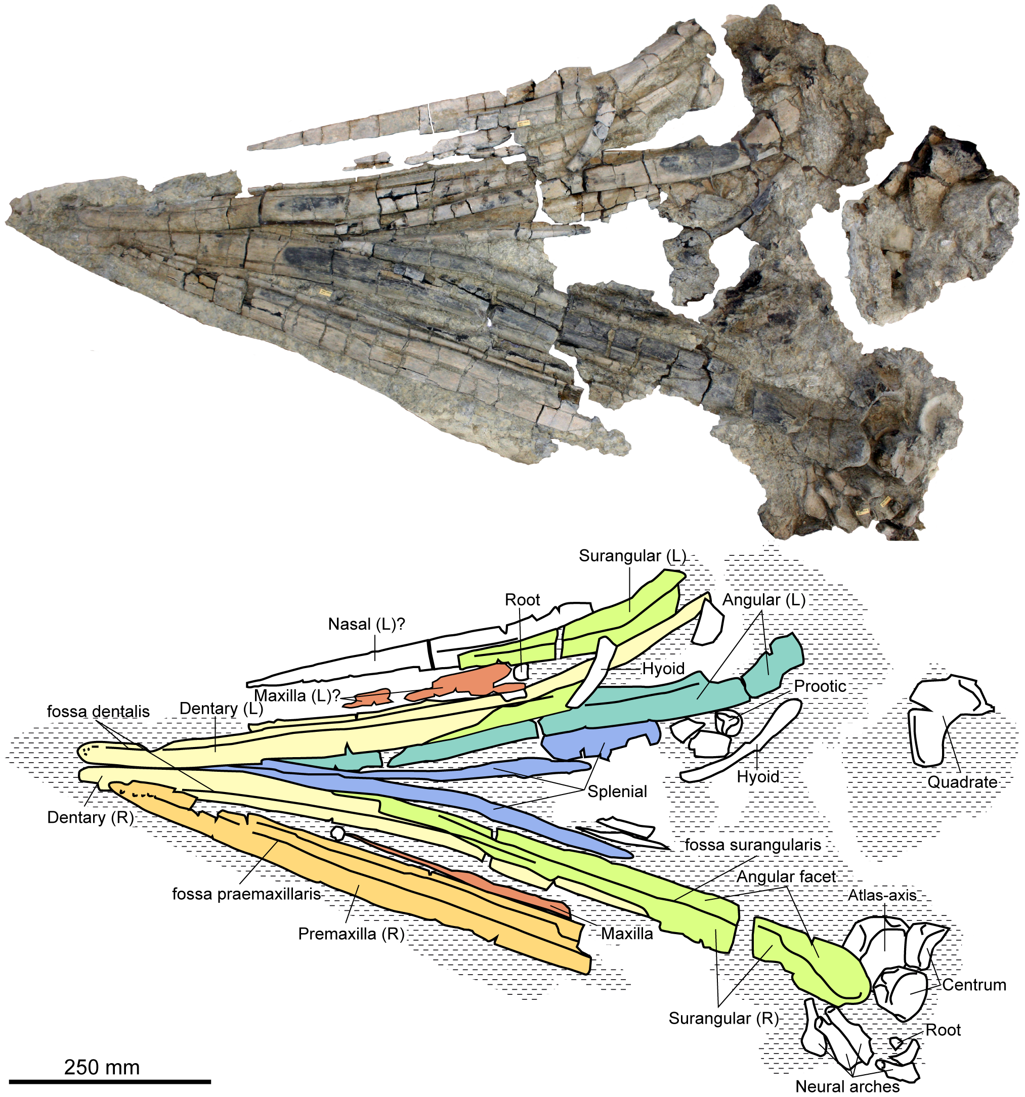 Skull and partial cervical region of Acamptonectes densus (SNHM1284-R).